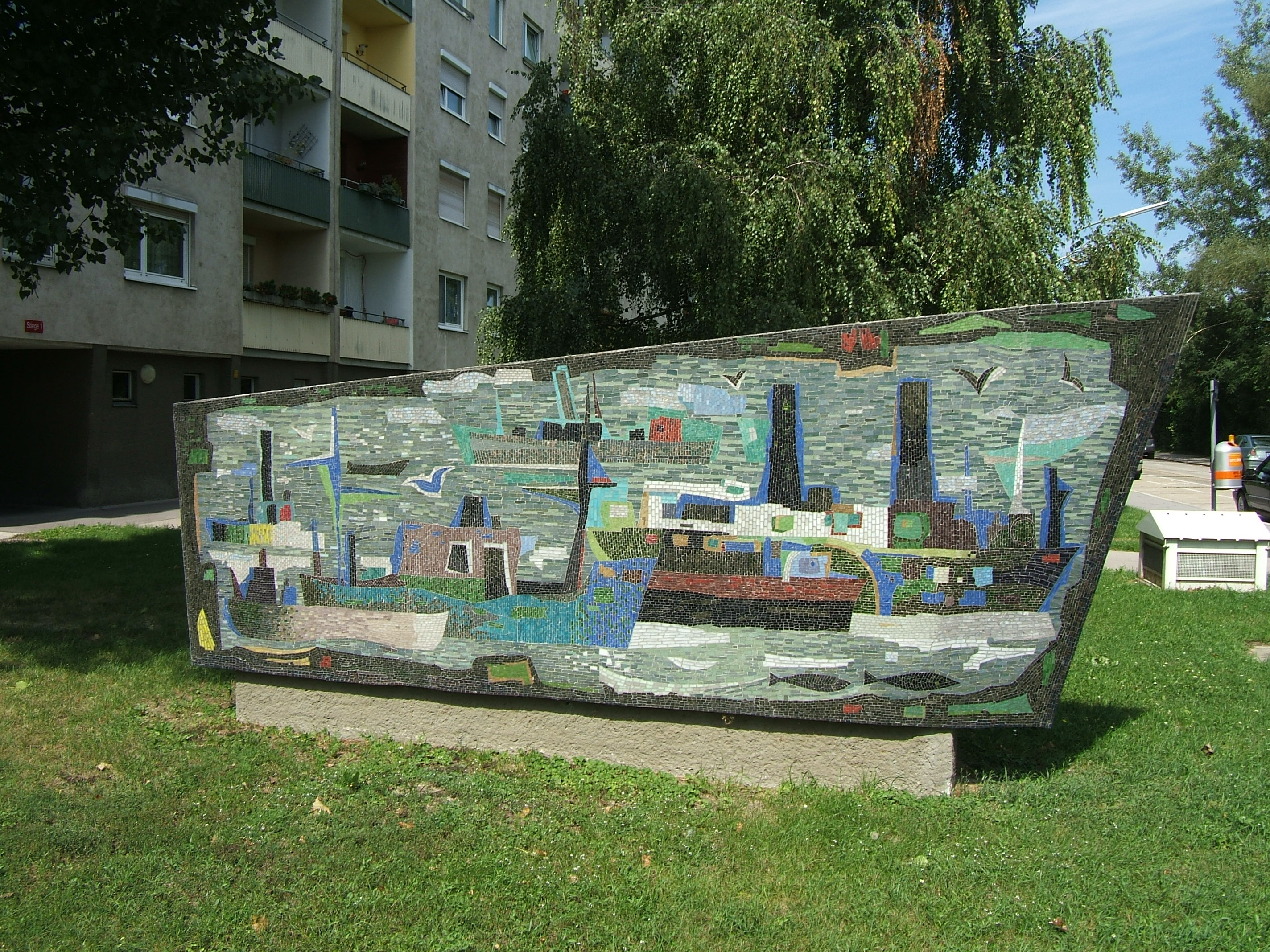 Mosaik in the 22nd district of Vienna, Düsseldorfstraße 5-13